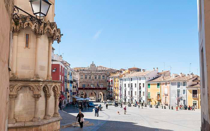 Ayuntamiento y plaza mayor. Ciudad de Cuenca, España